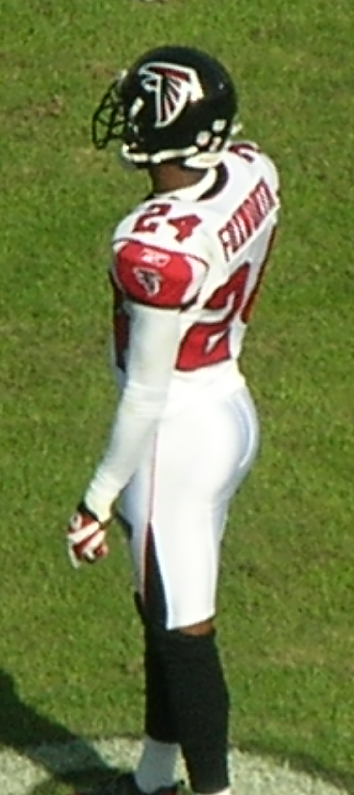 Atlanta Falcons cornerback Domonique Foxworth at a road game against the Oakland Raiders. The Falcons won 24-0.